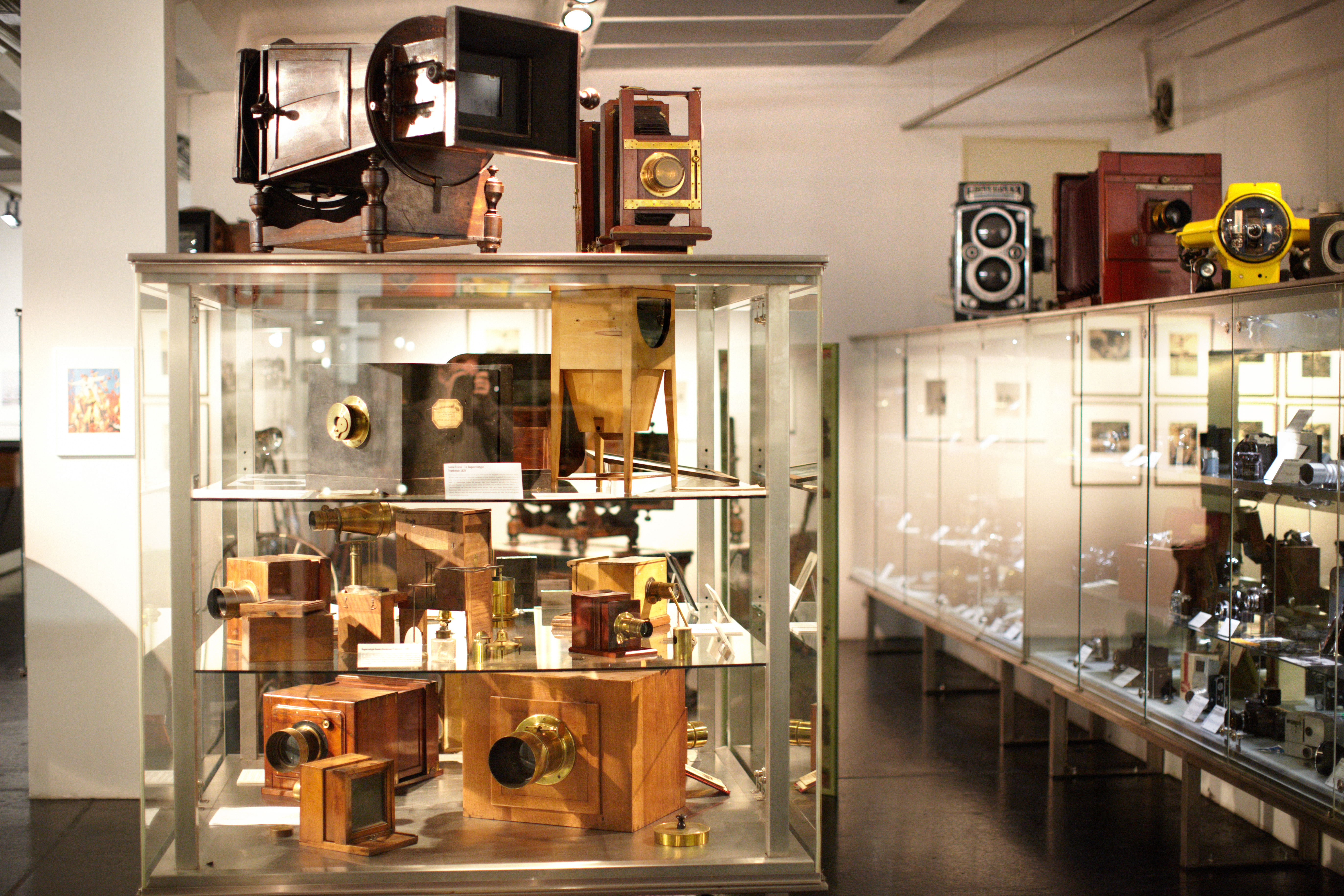 Kameramuseum_WestLicht